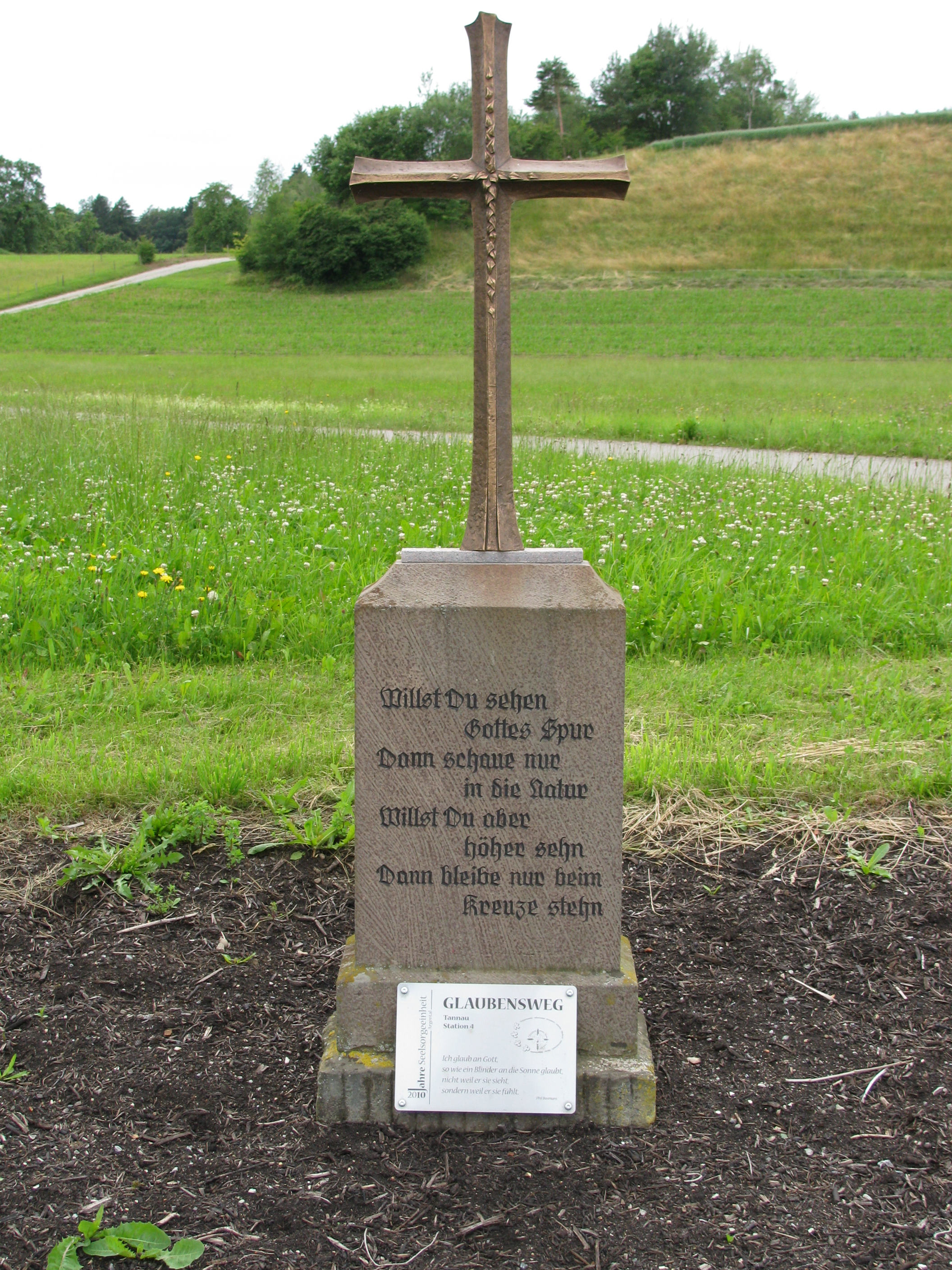 Germany - Baden-Württemberg - Bodenseekreis - Tettnang - Tannau: calvary, stop 4 of the "Glaubensweg"